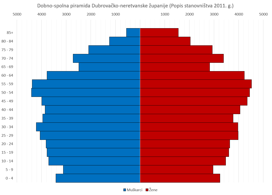 Population pyramid of Dubrovnik-Neretva County. Version in Croatian. Data from 2011 Census; available at